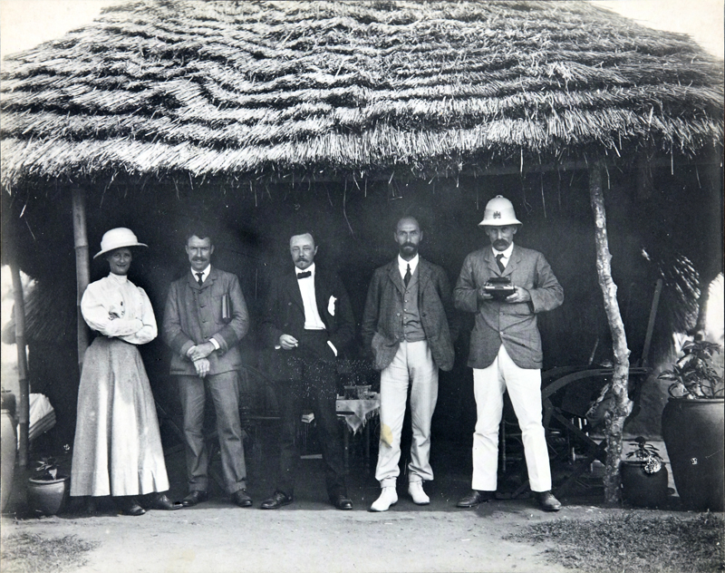 Description: Diplomat and first Governor of Southern Nigeria, Sir Walter Egerton (far right) with his wife and other westerners in Lagos. Date: c.1910 Our Catalogue Reference: CO 1069/70/28 This image is from the collections of The National Archives. Feel free to share it within the spirit of the Commons. For high quality reproductions of any item from our collection please contact our image library.